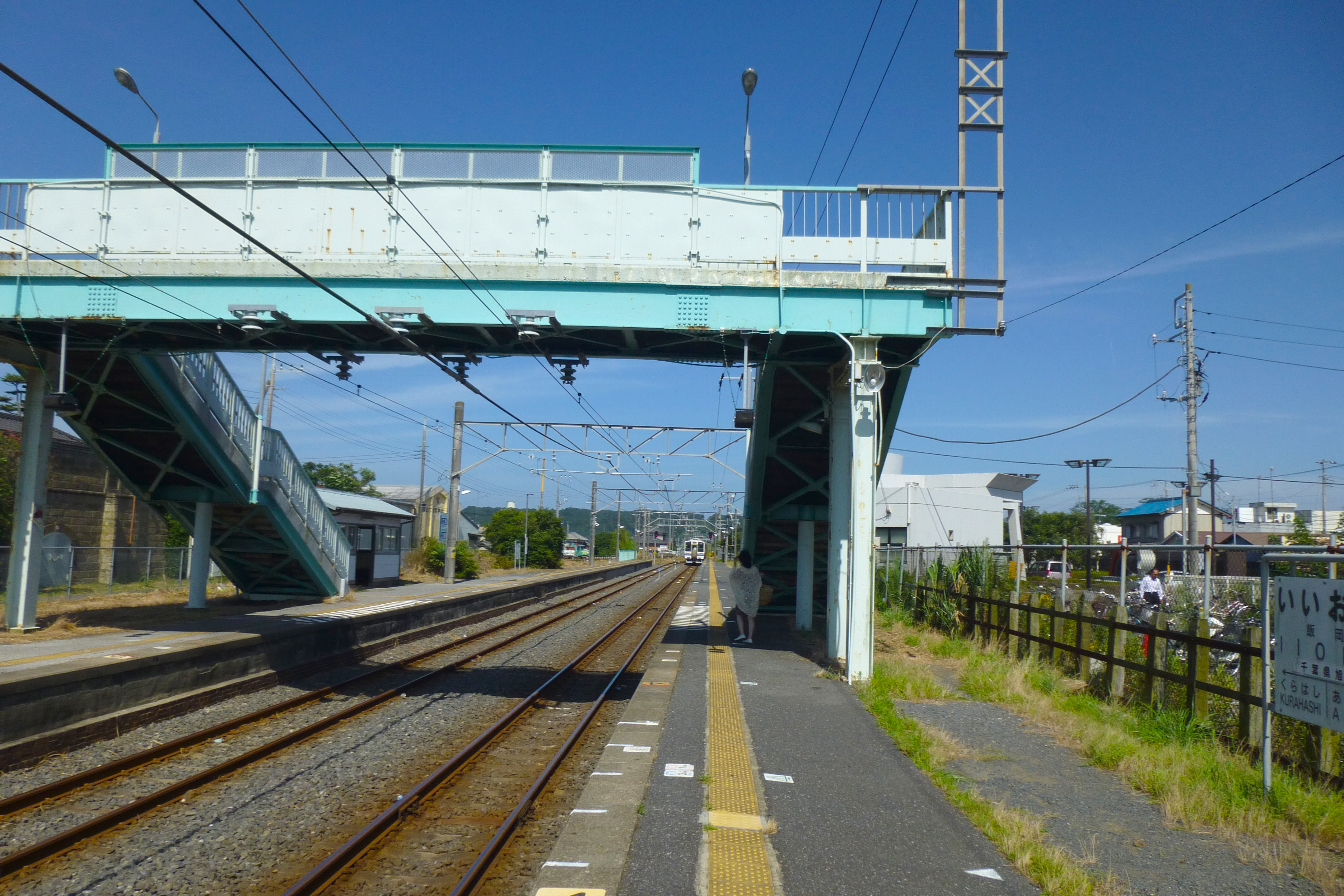 Iioka Station platforms (memories of that summer)